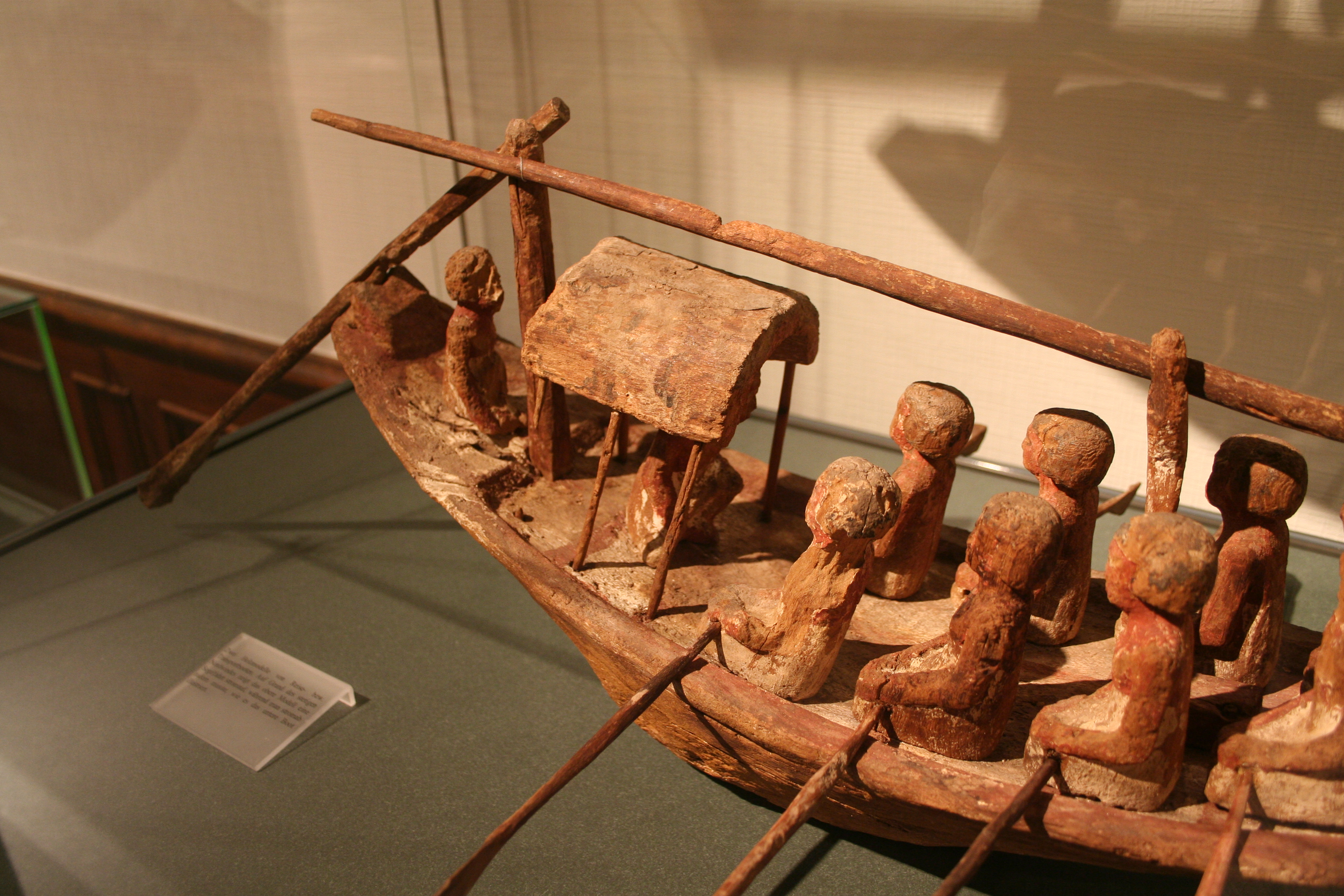 Boat model from the tomb of Herishefhotep; Abusir, 9th/10th dynasty